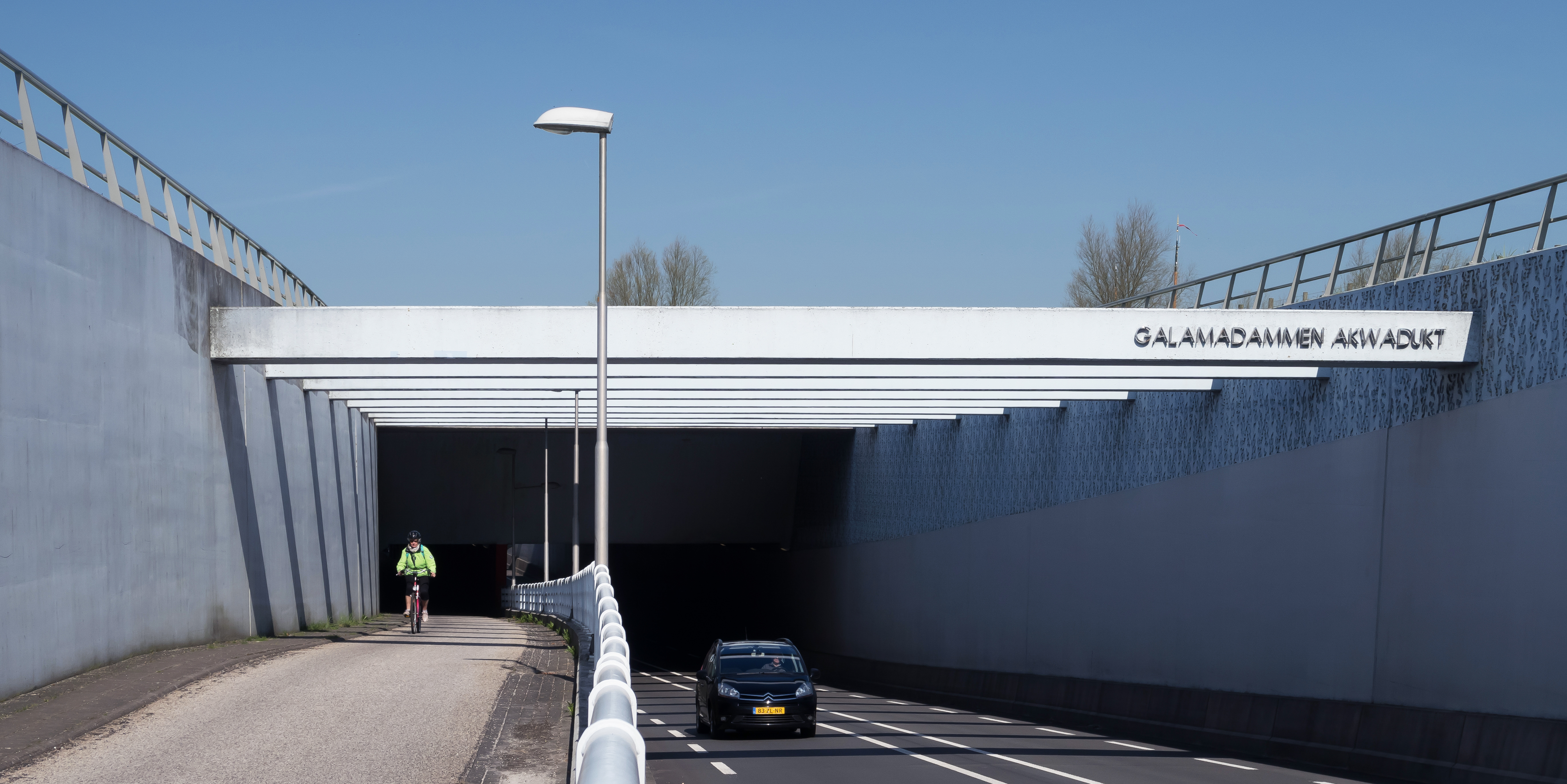 Galamadammen, the Galamadammen Aquaduct